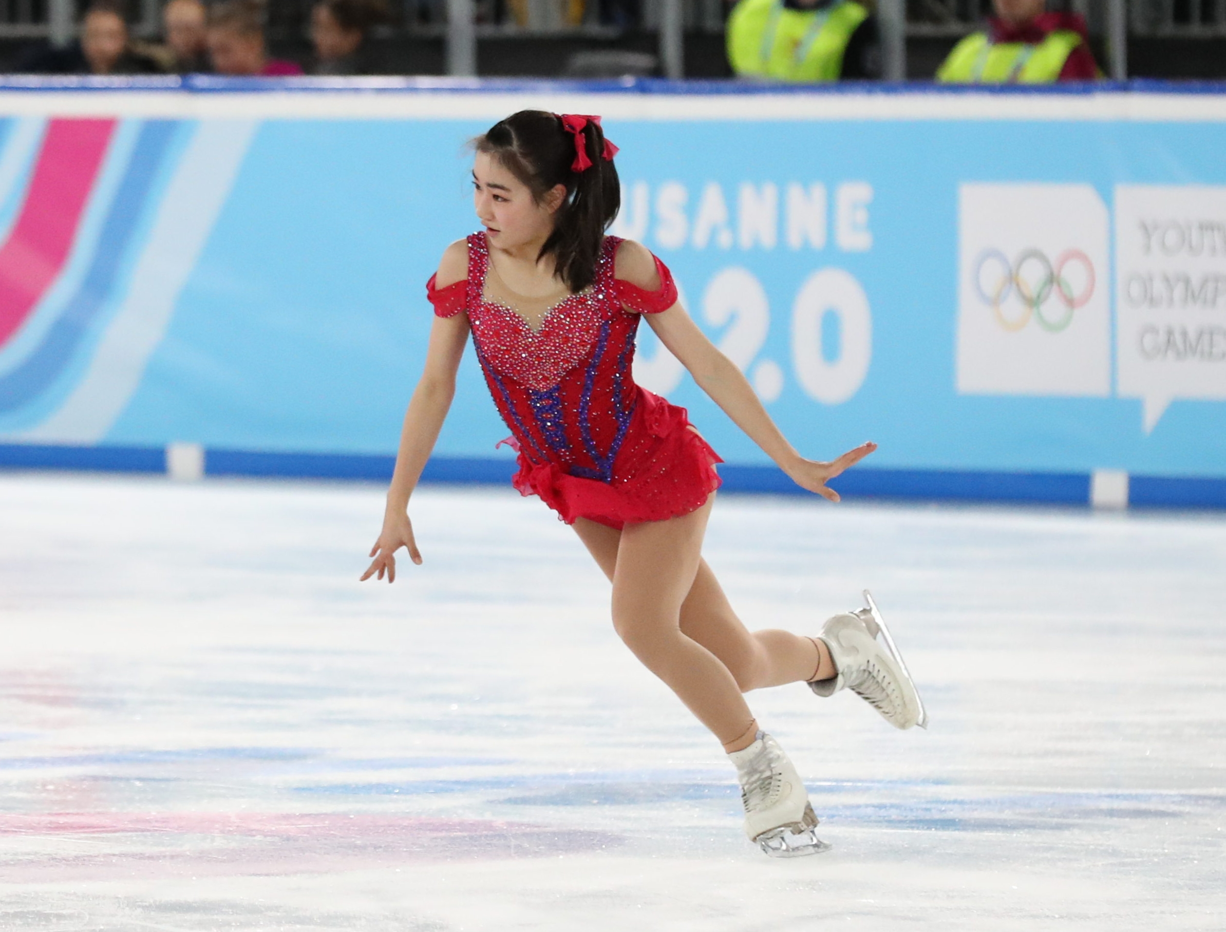 Women Single Figure Skating Short Program at the 2020 Winter Youth Olympics in Lausanne